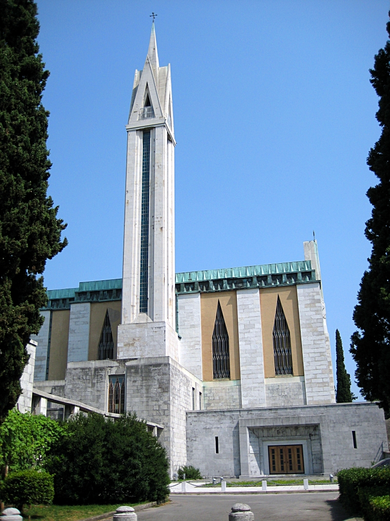 Church of St. Romuald and the All Saints, in the cemetery of Kozala in Rijeka